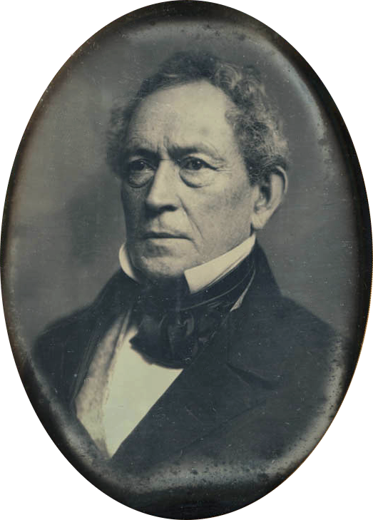 Daguerreotype of Edward Everett